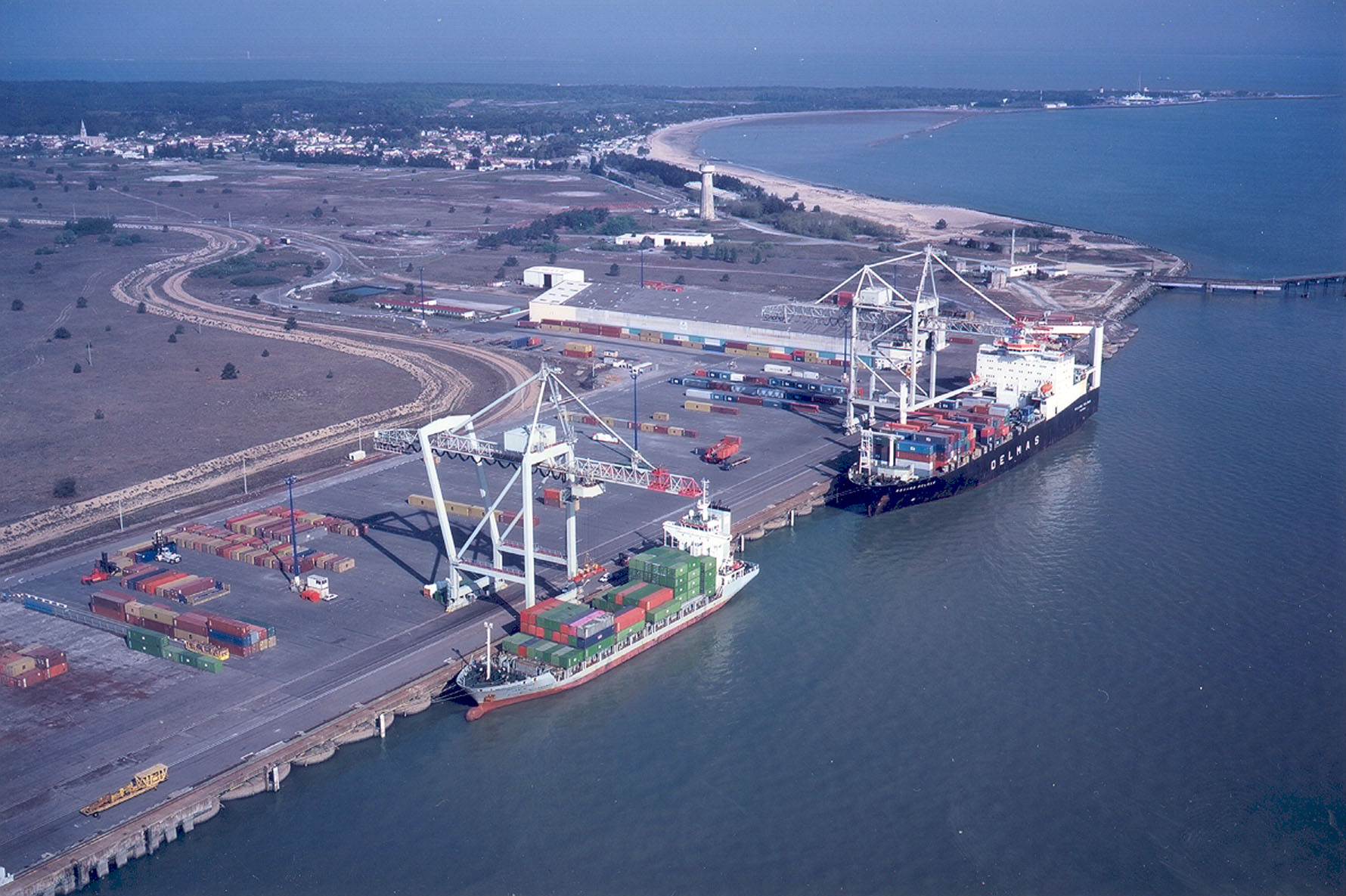 2 Container ships along side in Le Verdon haven, which is a subsidiary of Bordeaux port, France.